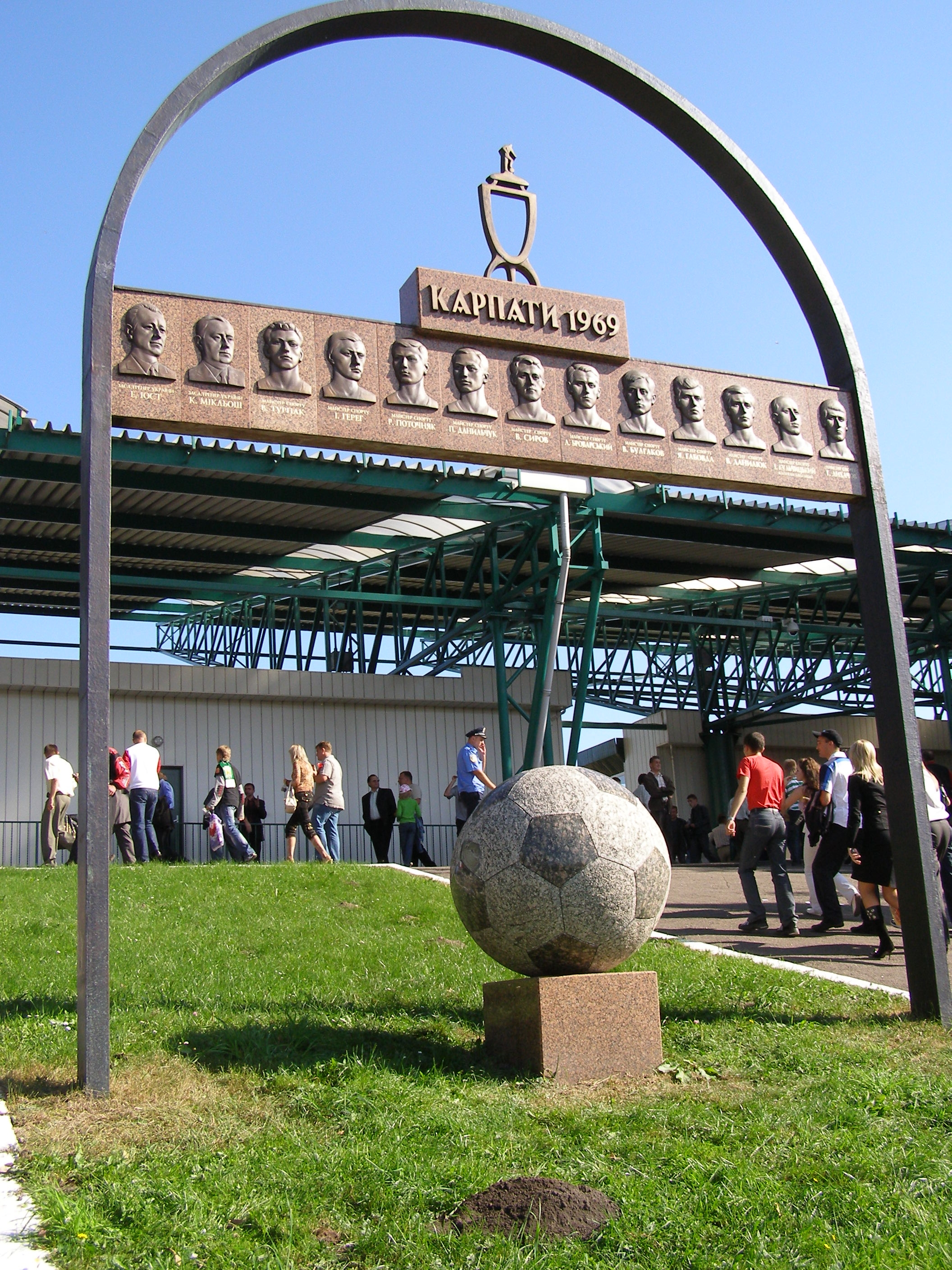 Monument at Ukrayina Stadium (Lviv)